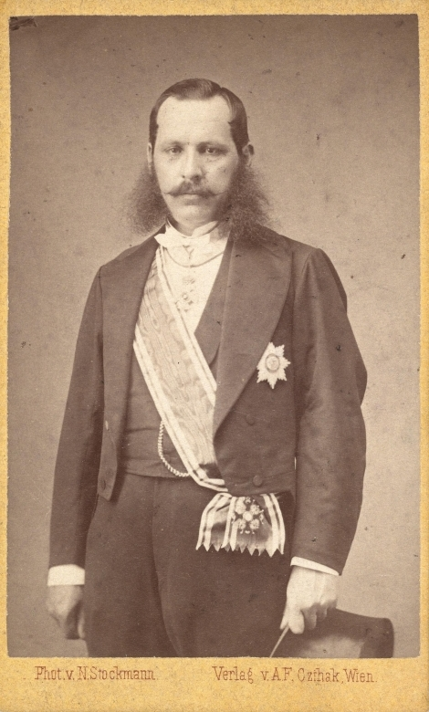 Jovan Ristic